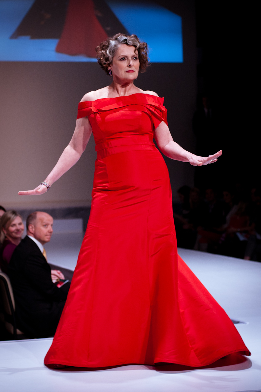 In 2012, The Heart Truth® marks a decade of commitment to women's heart health. Starting with February's American Heart Month and throughout the year, the National Heart, Lung, and Blood Institute (NHLBI) reaffirms its commitment to increasing awareness about heart disease among women and helping women take steps to reduce their own personal risk of developing heart disease. thehearttruth.ca thehearttruth + Photography by Jason Hargrove This set is available with a Creative Commons Attribution license for non-commercial use for media and bloggers alike. High resolution commercial use licenses can be purchased on request :)